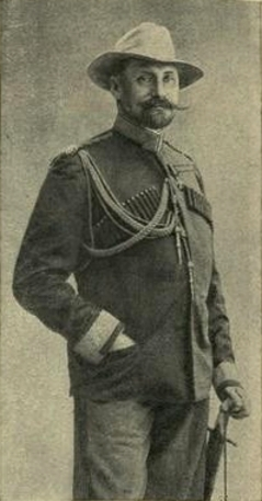 Leontyev, Nikolay Stepanovich